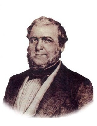 Eusébio de Queirós Matoso, Brazilian Minister of Justice Affairs from 1848 to 1852-1850. Authored and enforced the law that banished slave trade from Africa to Brasil.